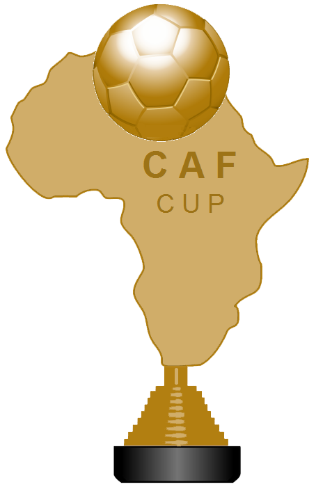 The trophy of CAF Cup